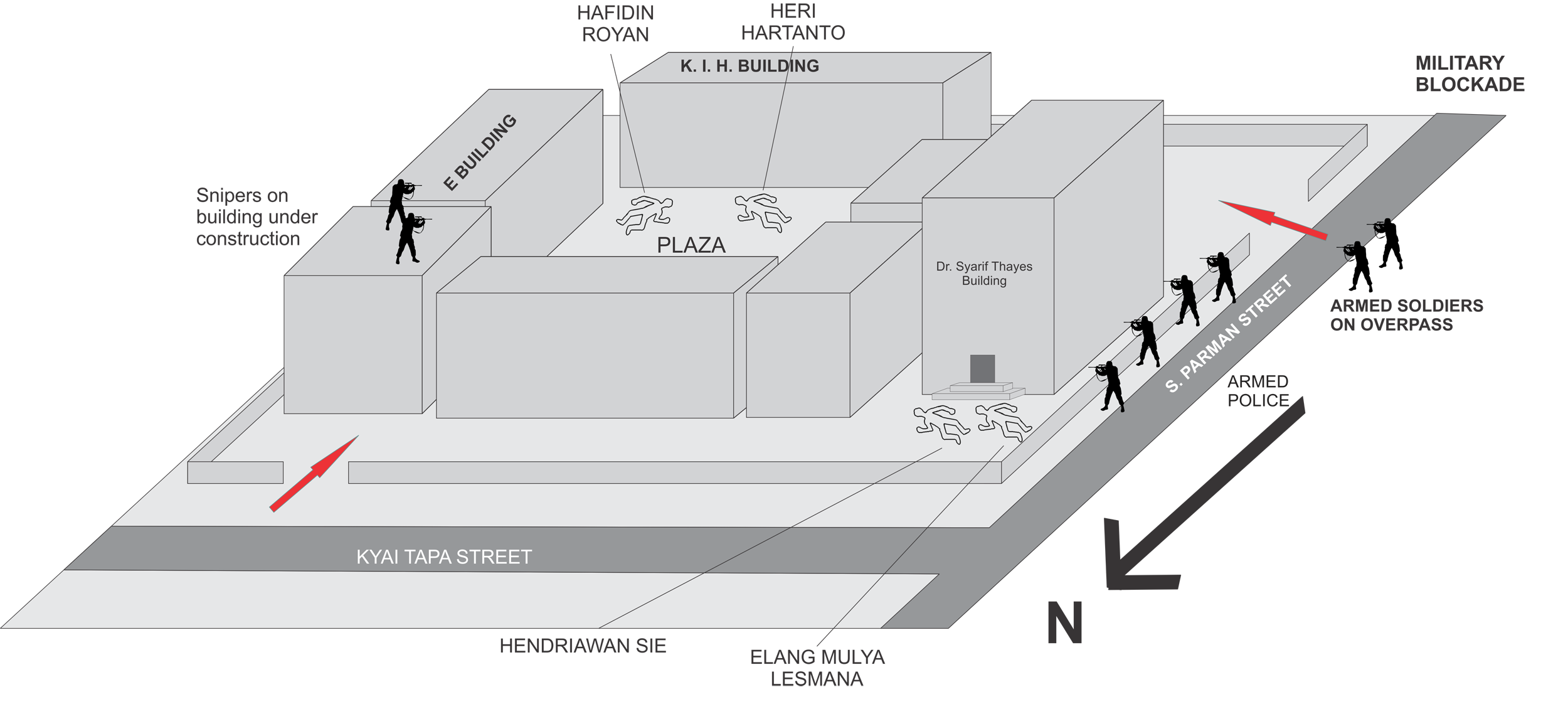 A rough outline of the situation at Trisakti University during the 1998 Trisakti shootings. Based on the data from the Trisakti Crisis Center.